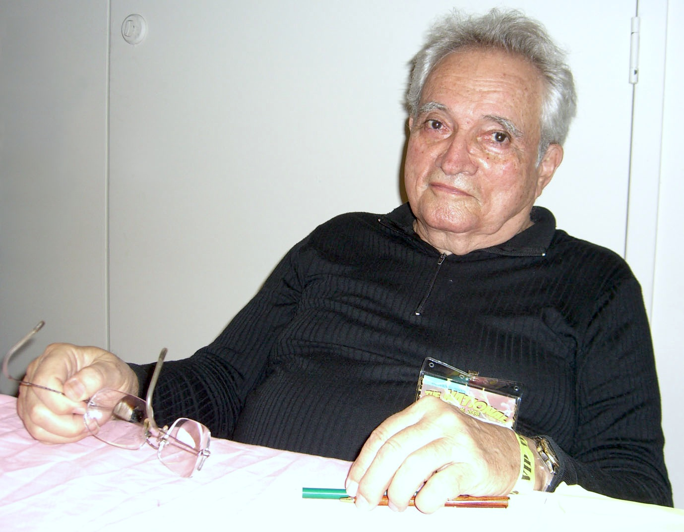 Comic book creator Russ Heath at the November 2008 Big Apple Convention in Manhattan. Photo by Luigi Novi. This photo may be used, modified and published for any purpose, only if the photographer is visibly credited in each instance in which it is used. (See licensing information below.) For more information on my photos, you can contact me here.